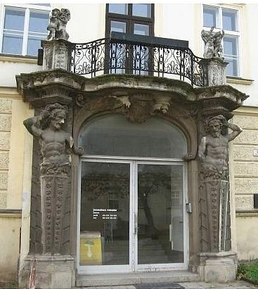 Portal gate of former Mittrovských palace in Brno, Moravia, Czech Republic, moved to the so called Episcopal court